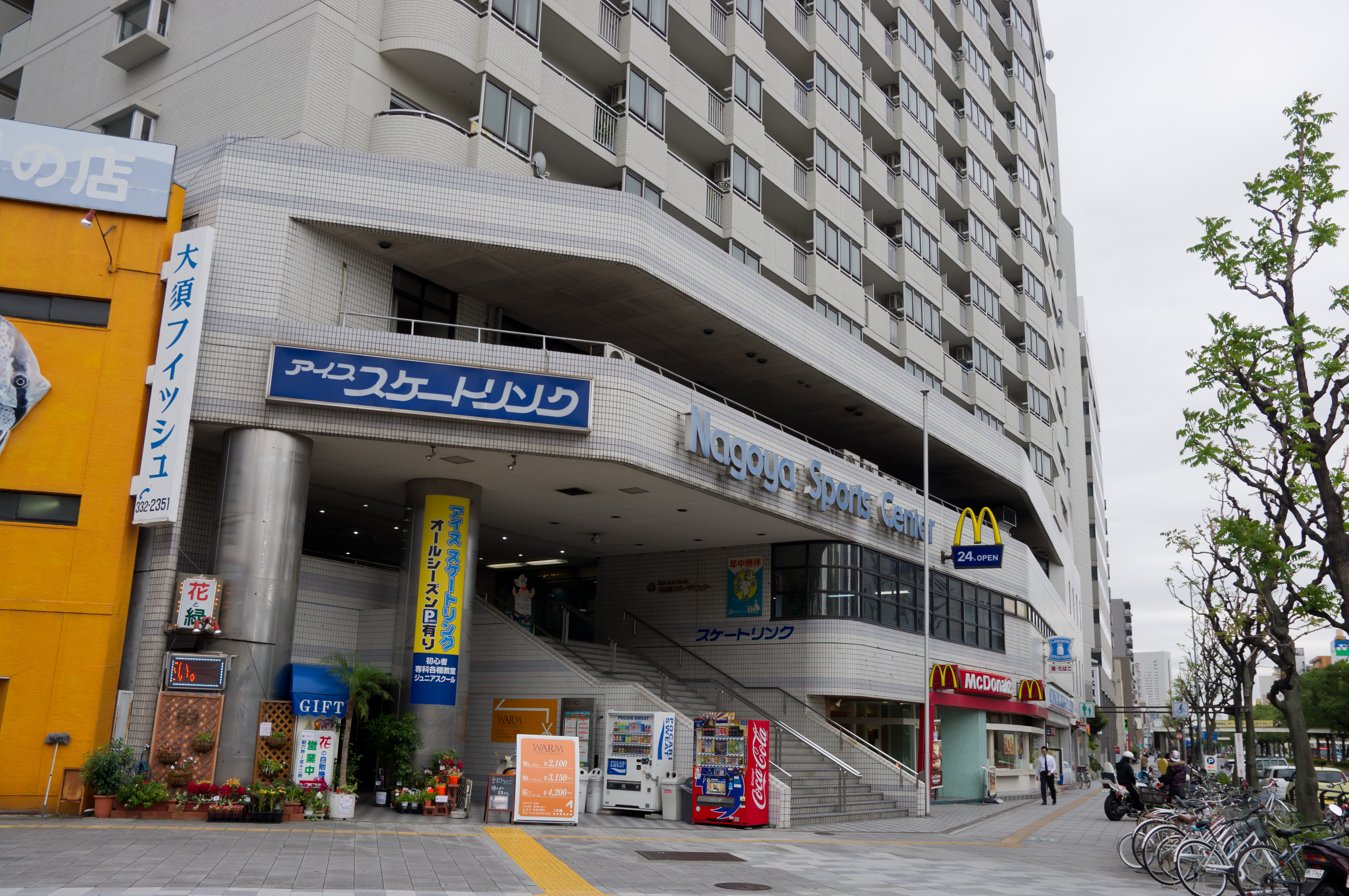 Nagoya Sports Center（Naka-ku, Nagoya, Aichi, Japan）